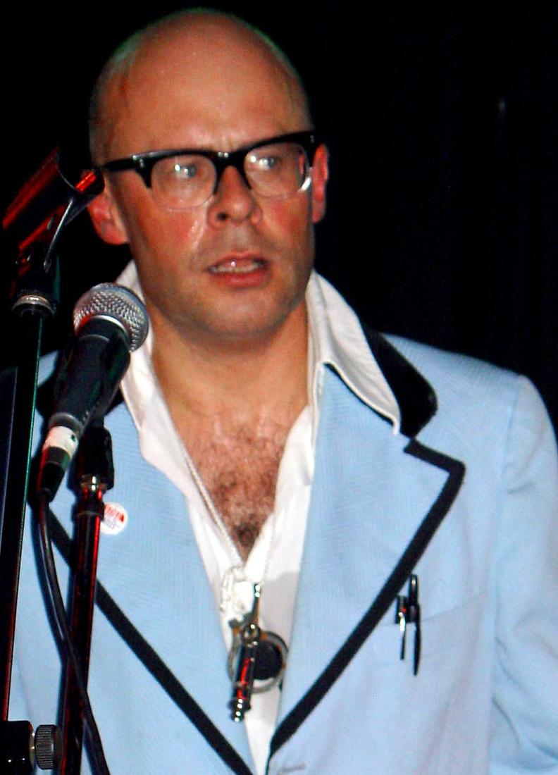 Harry Hill in Putney with The Caterers in 2006.